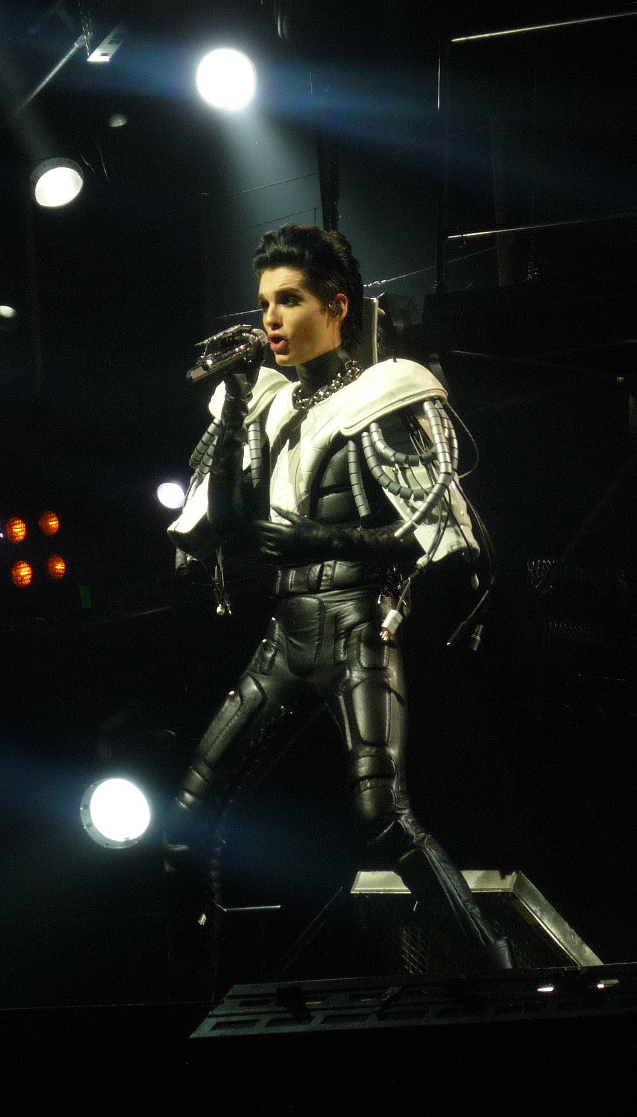 Bill Kaulitz performing at the Hallenstadion in Zürich.